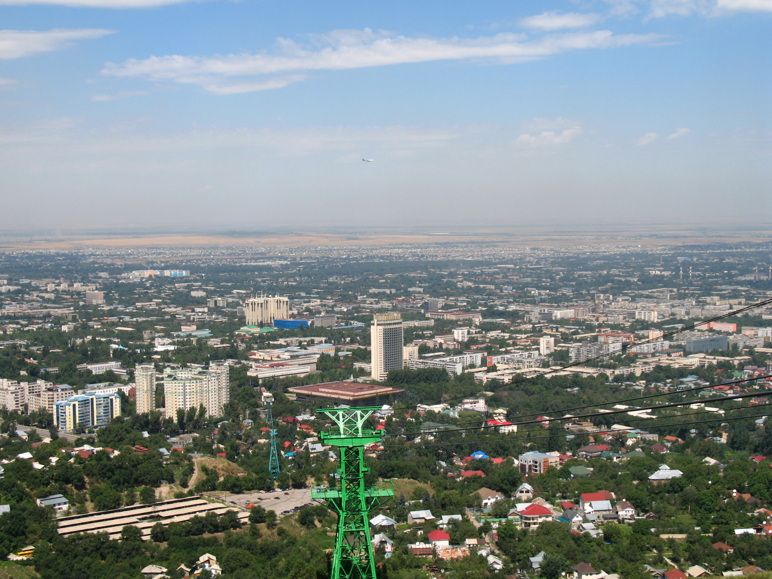 Almaty, bird's-eye view